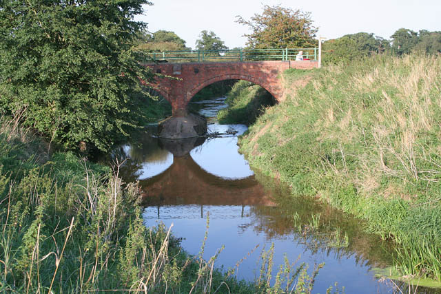 River Smite near Shelton. This bridge carries a farm road between Shelton and Flawborough over the Smite.